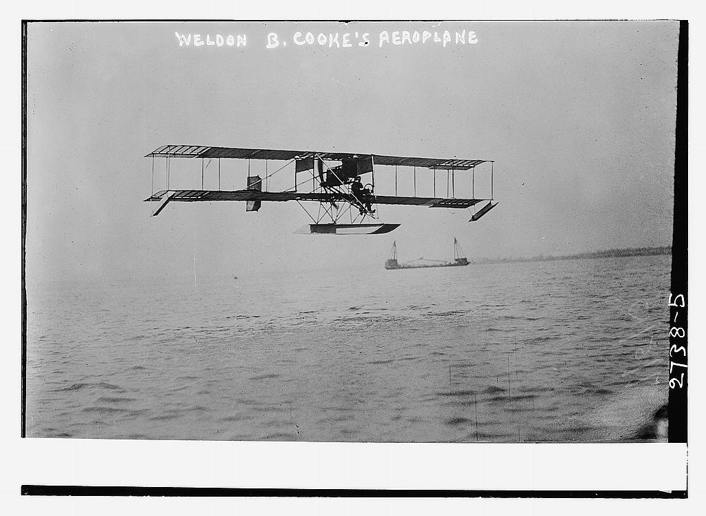 Weldon B. Cooke's aeroplane (LOC) Bain News Service,, publisher. Weldon B. Cooke's aeroplane 1913 July 6 (date created or published later by Bain) 1 negative : glass ; 5 x 7 in. or smaller. Notes: Title and date from data provided by the Bain News Service on the negative. Photo shows airplane of aviator Weldon B. Cooke (1884-1914). (Source: Flickr Commons Project, 2009) Forms part of: George Grantham Bain Collection (Library of Congress). Format: Glass negatives. Repository: Library of Congress, Prints and Photographs Division, Washington, D.C. 20540 USA, General information about the Bain Collection is available at Persistent URL: Call Number: LC-B2- 2738-5